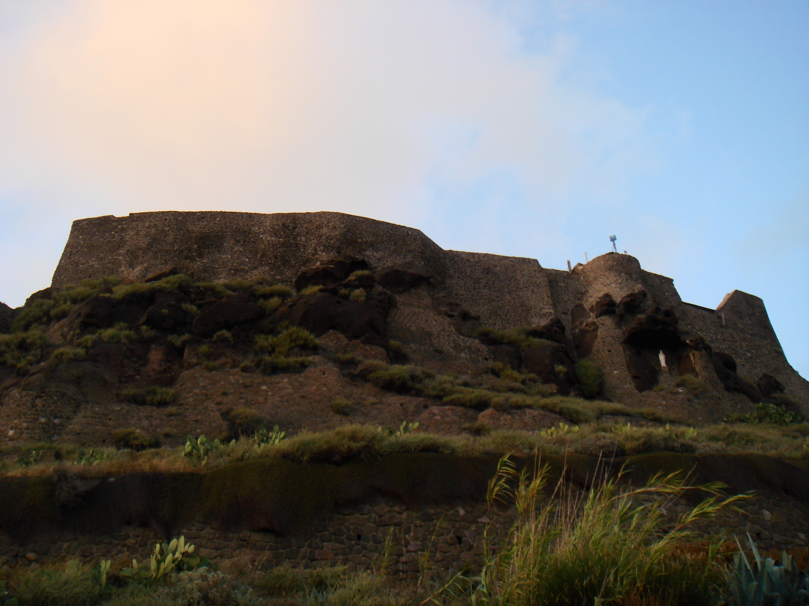 Castle of Castelsardo (Sardinia). Picture by Stefano Bolognini.